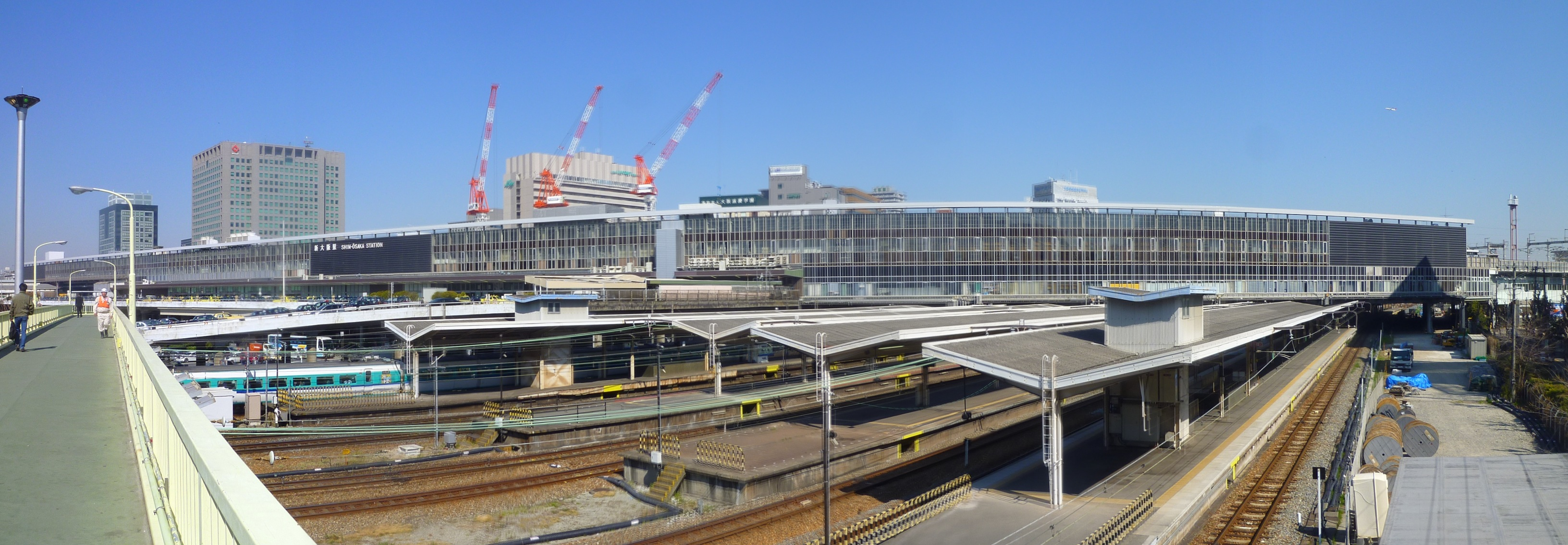 Shin-Osaka Station